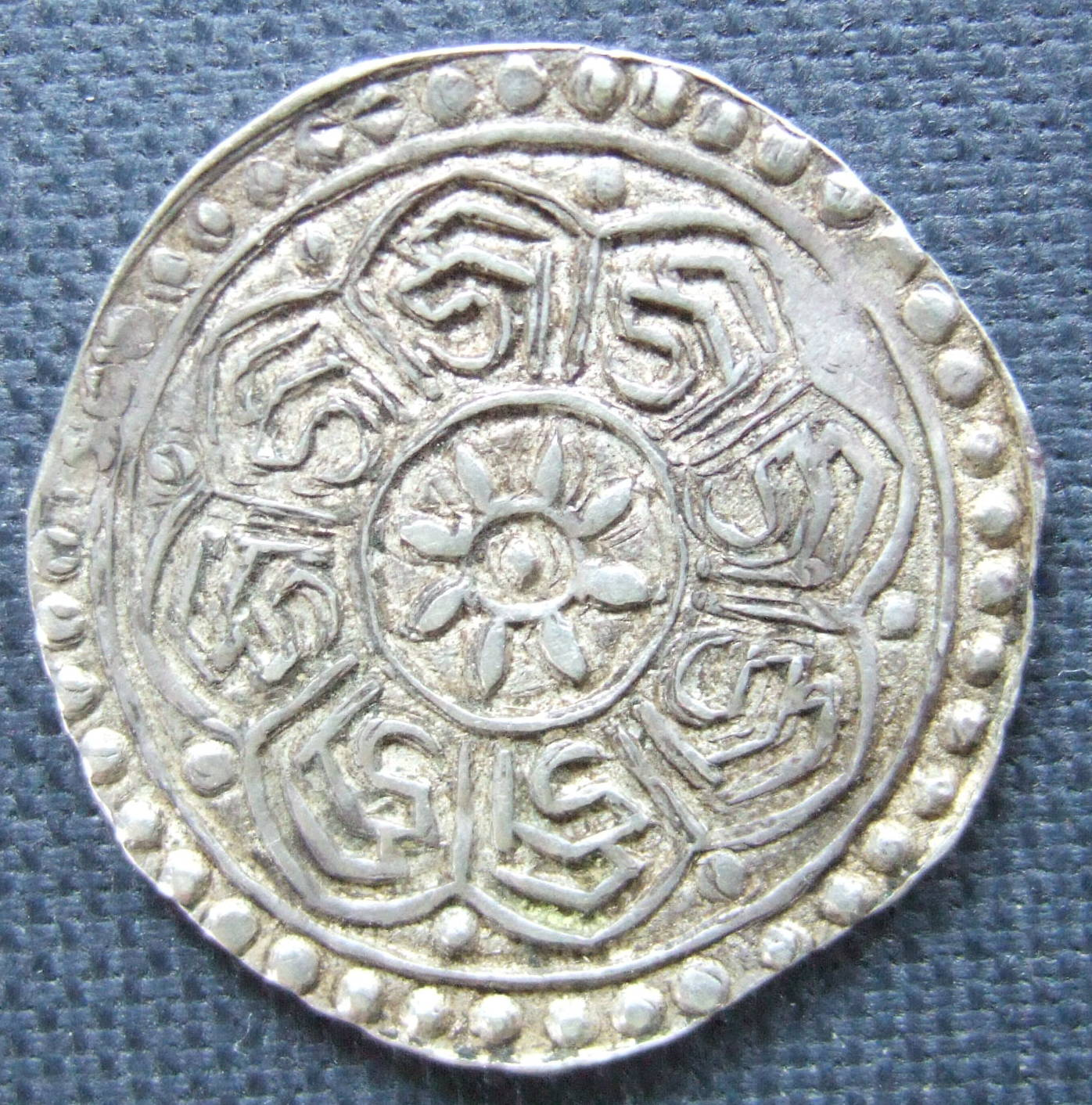 Tibetan tangka with eight syllables "dza" (18th century), obverse